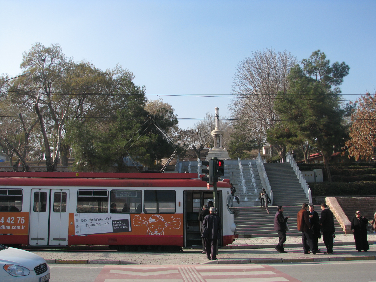 Konya Tram